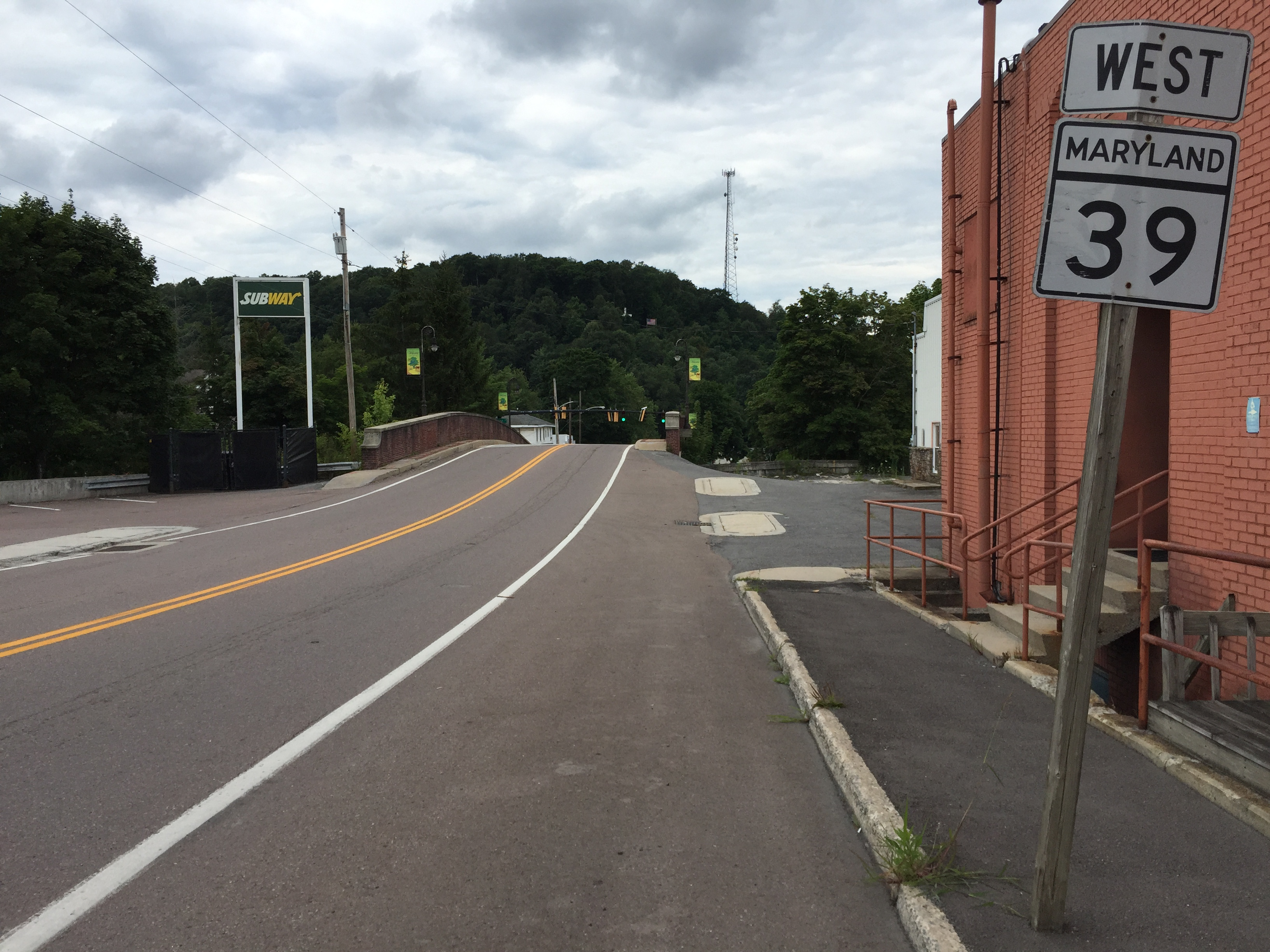 View west along Maryland State Route 39 (Oak Street) at U.S. Route 219 (Third Street) in Oakland, Garrett County, Maryland